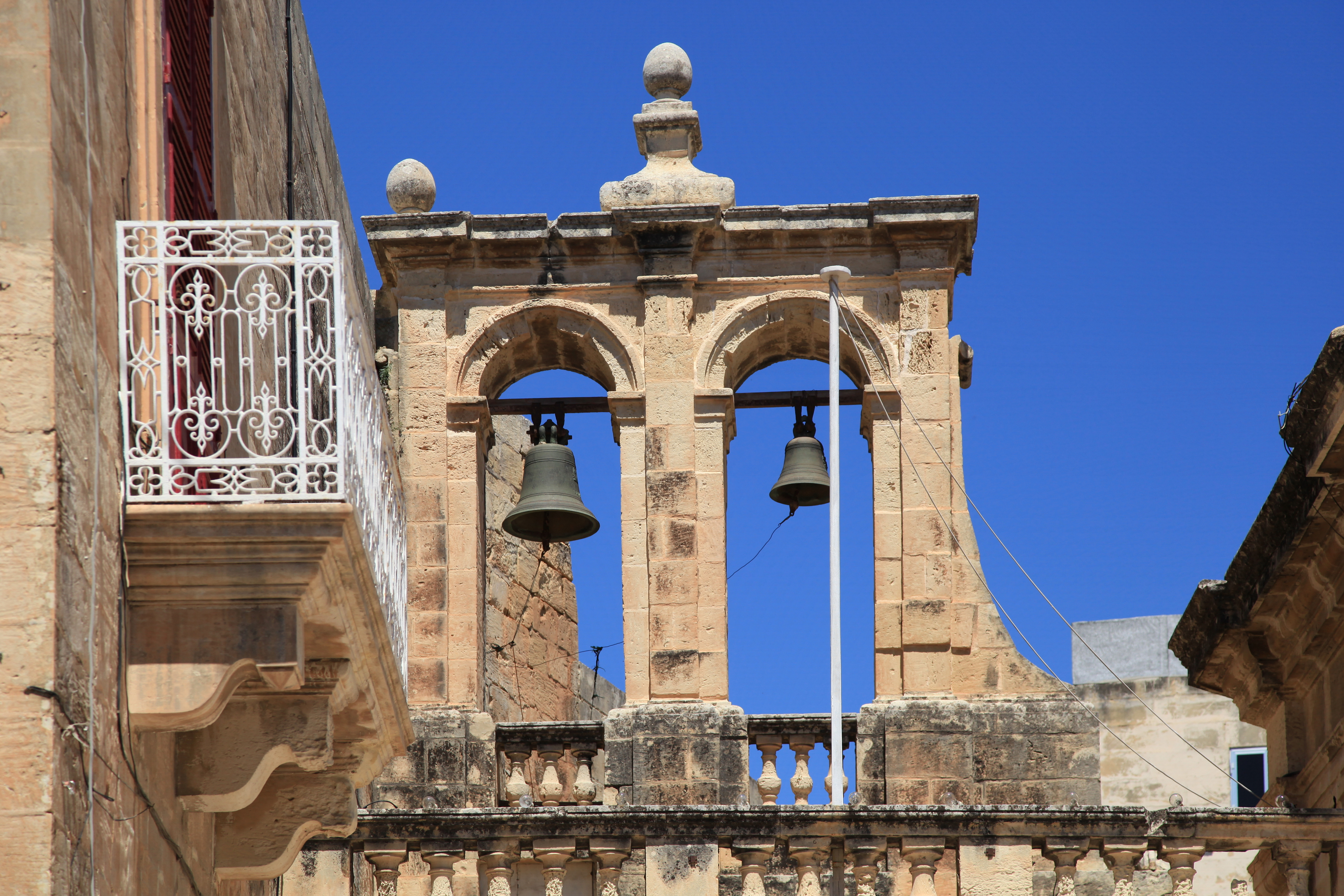 Triq il-Kbira in Żebbuġ, Malta